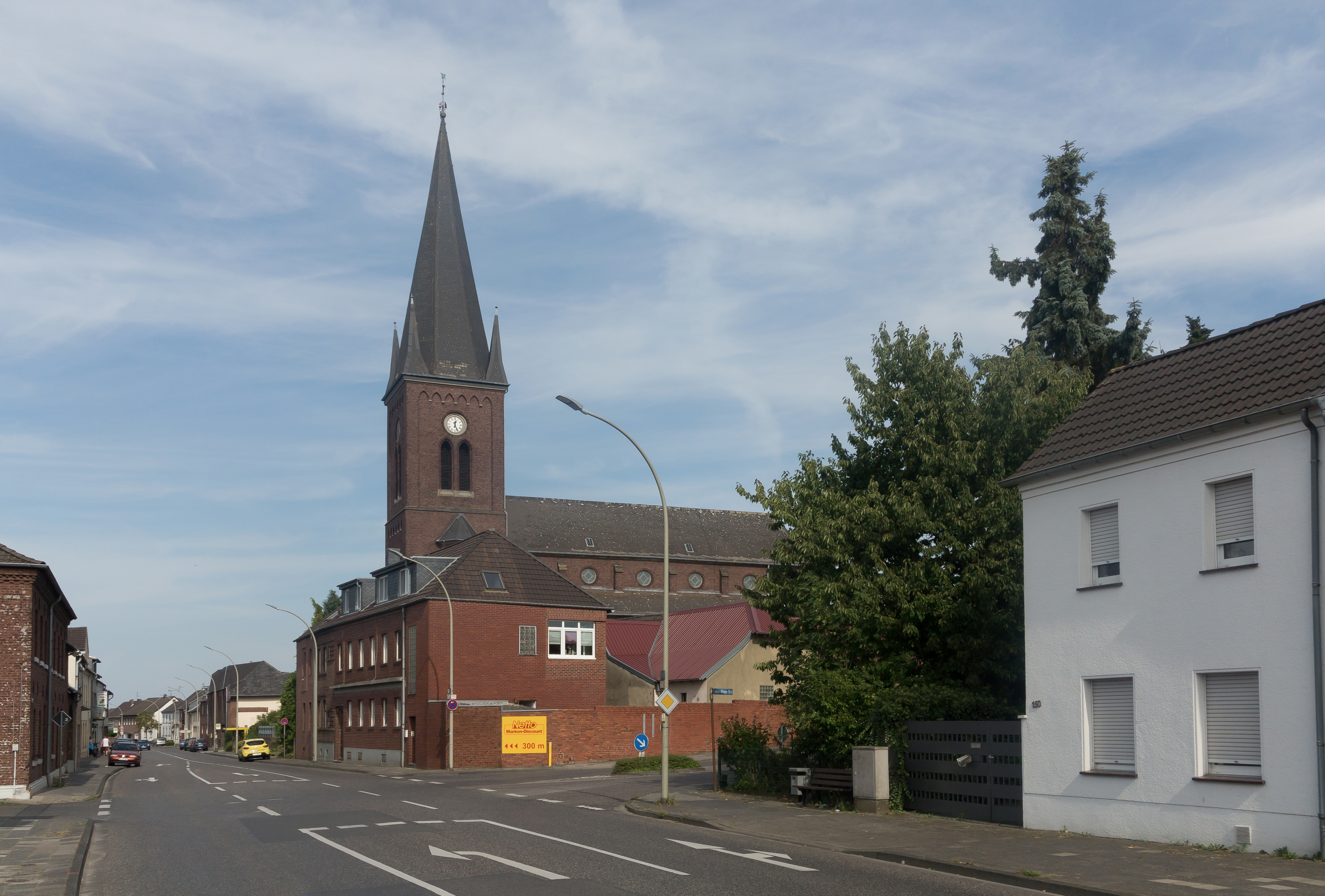 Scherpenseel, catholic church in the street This is a photograph of an architectural monument.